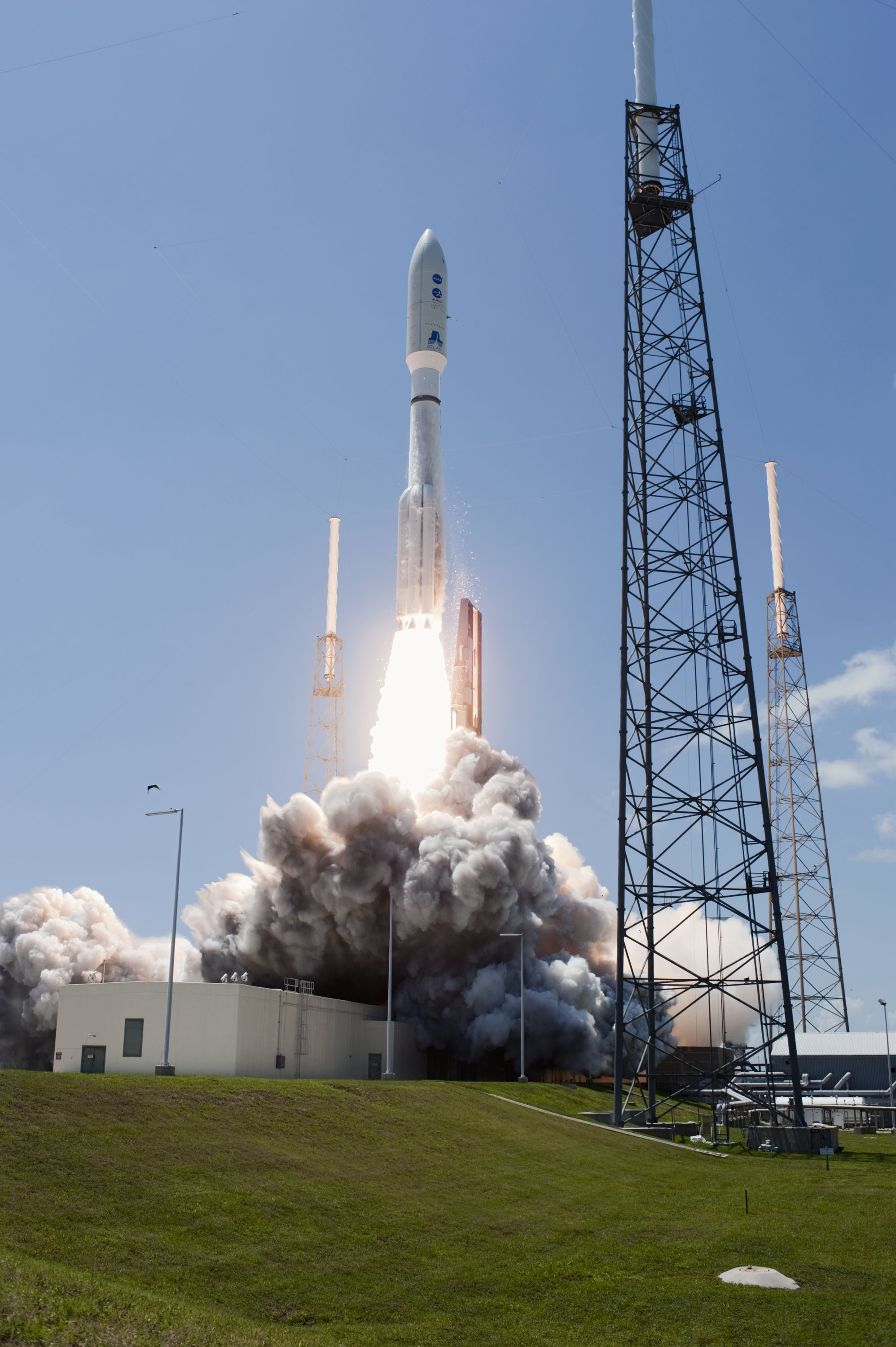 CAPE CANAVERAL, Fla. -- Rising from fire and smoke, NASA's Juno planetary probe, enclosed in its payload fairing, launches atop a United Launch Alliance Atlas V rocket. Leaving from Space Launch Complex 41 on Cape Canaveral Air Force Station in Florida, the spacecraft will embark on a five-year journey to Jupiter. Liftoff was at 12:25 p.m. EDT Aug. 5. The solar-powered spacecraft will orbit Jupiter's poles 33 times to find out more about the gas giant's origins, structure, atmosphere and magnetosphere and investigate the existence of a solid planetary core. For more information, visit